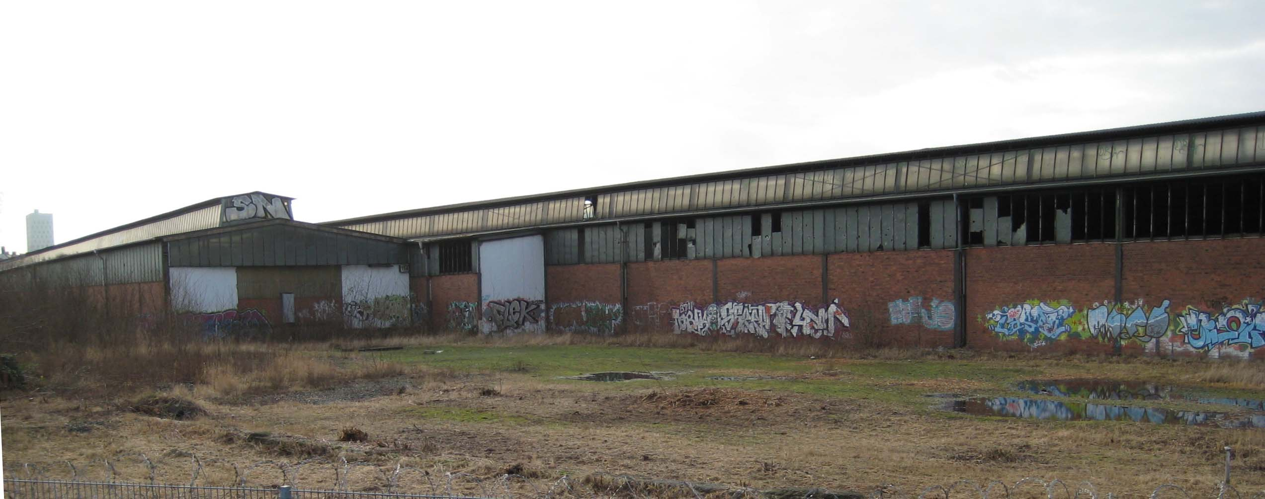 Railway goods sheds, Altona, Germany